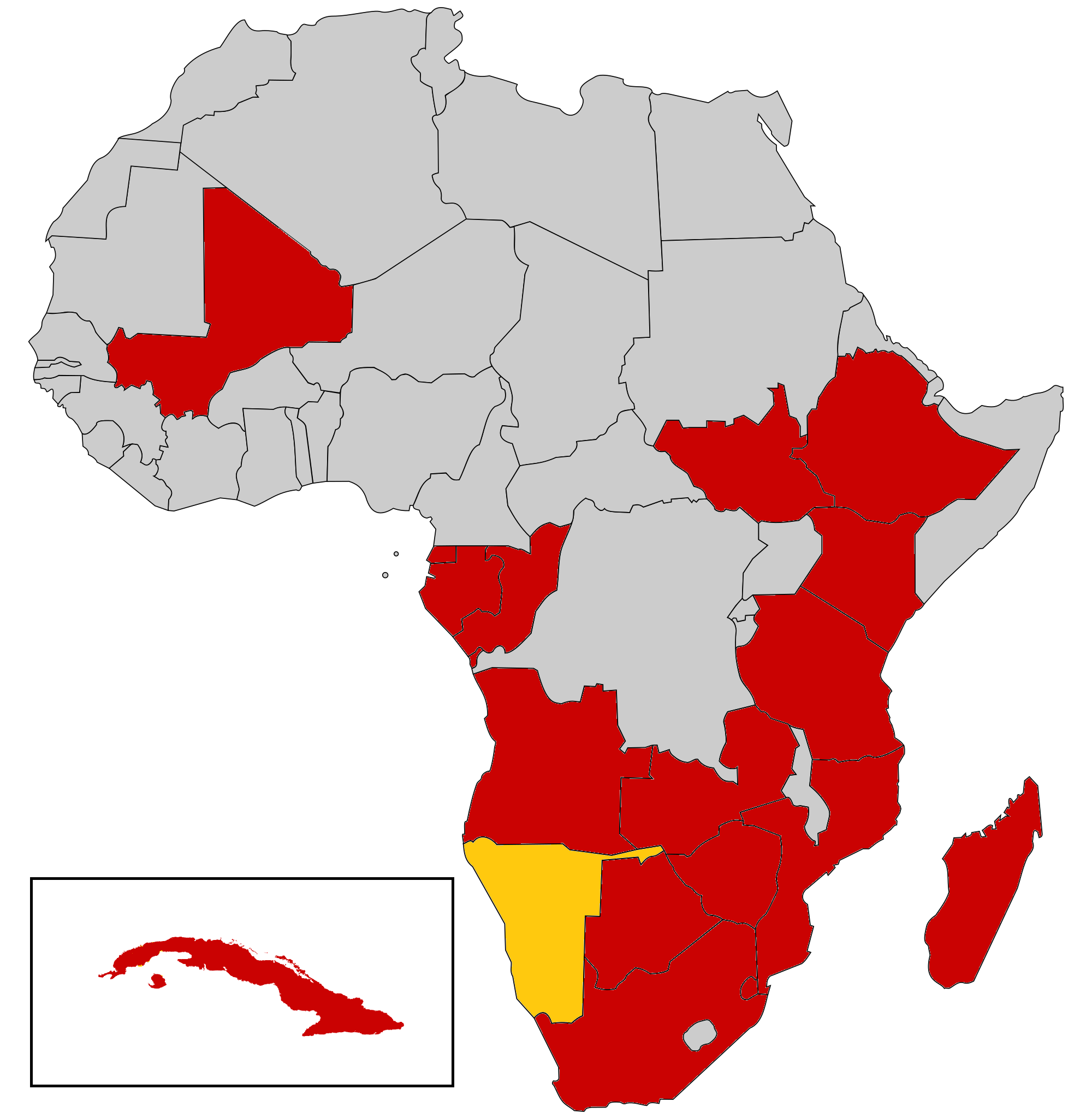 Inauguration of Hage Geingob Map of Cuba from